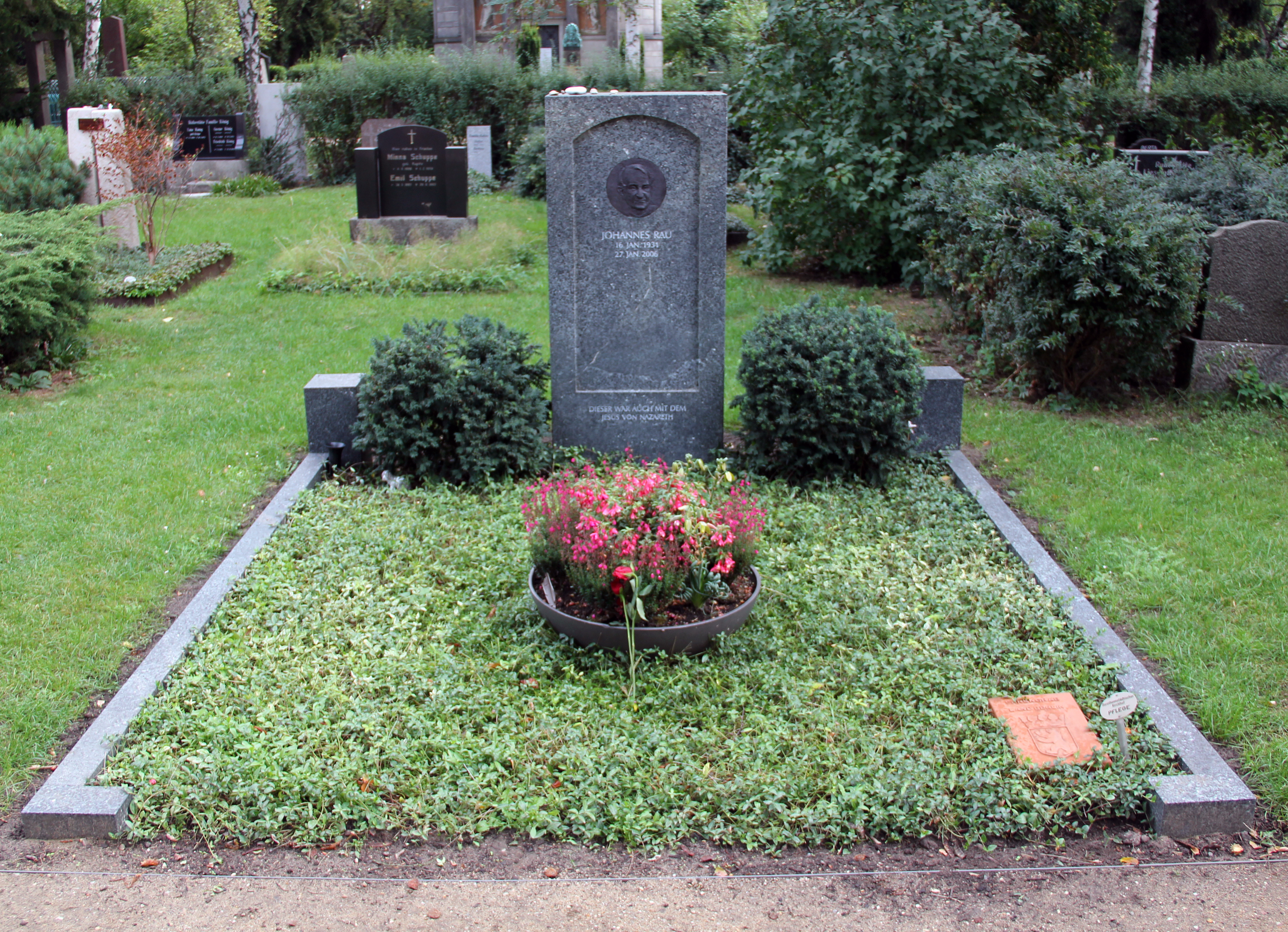 Grave of honor, Johannes Rau, Chausseestraße 126, Berlin-Mitte, Germany